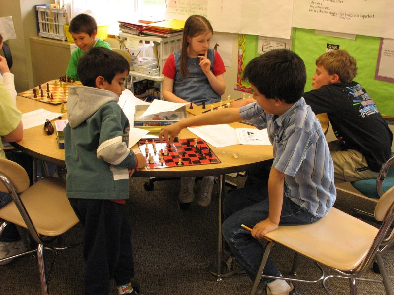 Chess Club at Sandy Hook School in Newtown, CT, USA.